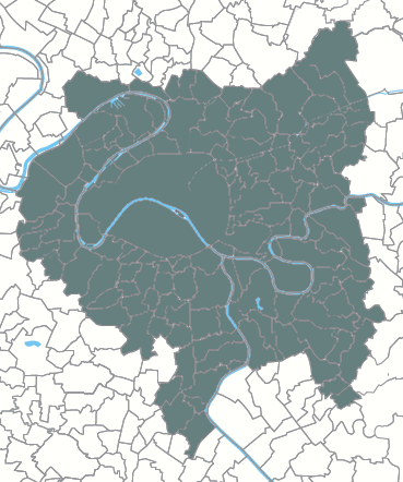 Map of the Greater Paris Metropolis (Métropole du Grand Paris) and its 131 communes based on the government decree # 2015-1212 of 30 Septembre 2015: [1].